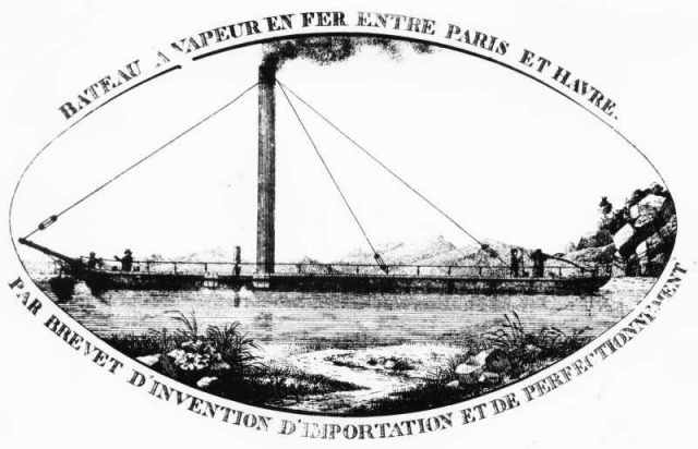 A period picture of Aaron Manby in French service.